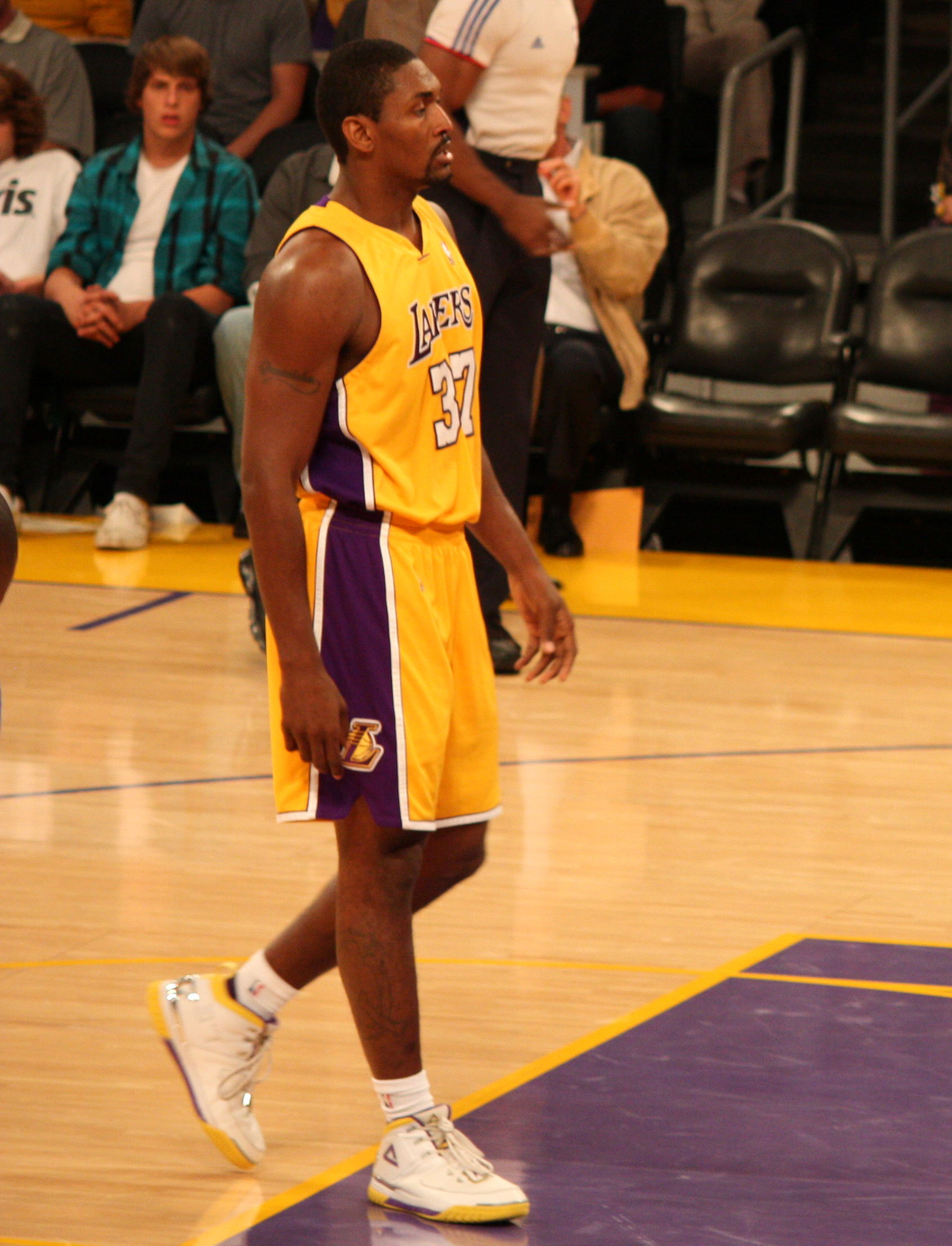 Ron Artest (far left), Kobe Bryant (center), Josh Powell (far right) of the Los Angeles Lakers and Rasual Butler (#24) of the Los Angeles Clippers during a 2009–10 NBA game.